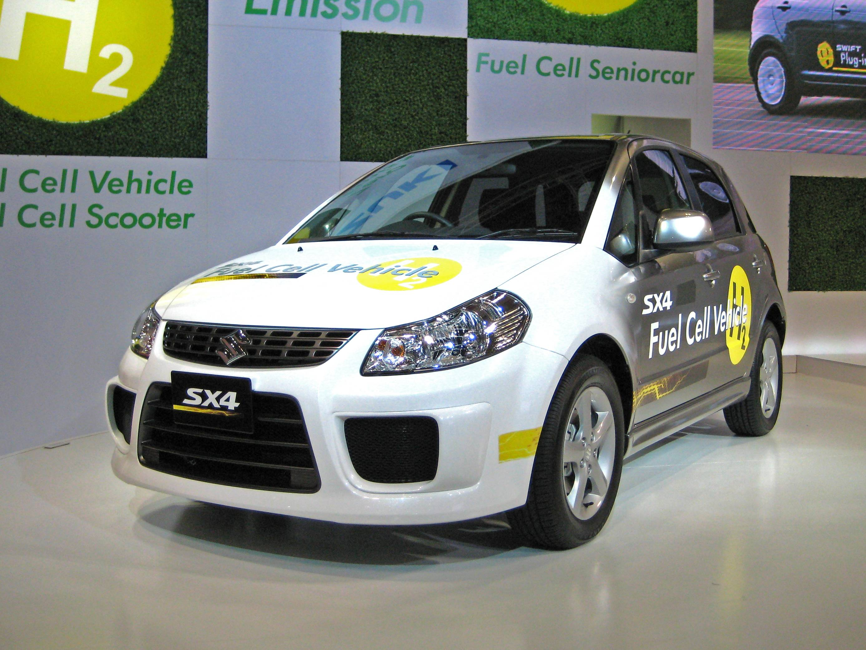 Suzuki SX4-FCV in Tokyo Motor Show 2009.